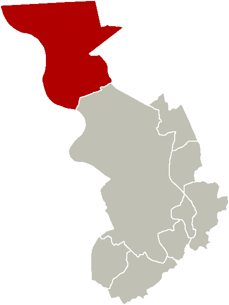 The location of the district Berendrecht-Zandvliet-Lillo